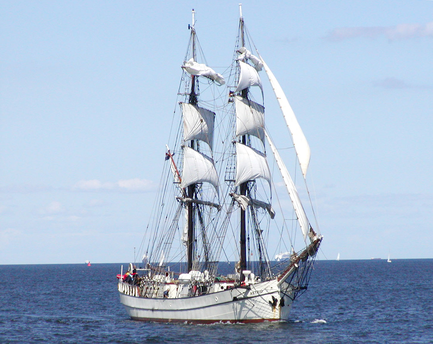 Brig Astrid at Kiel Week 2008